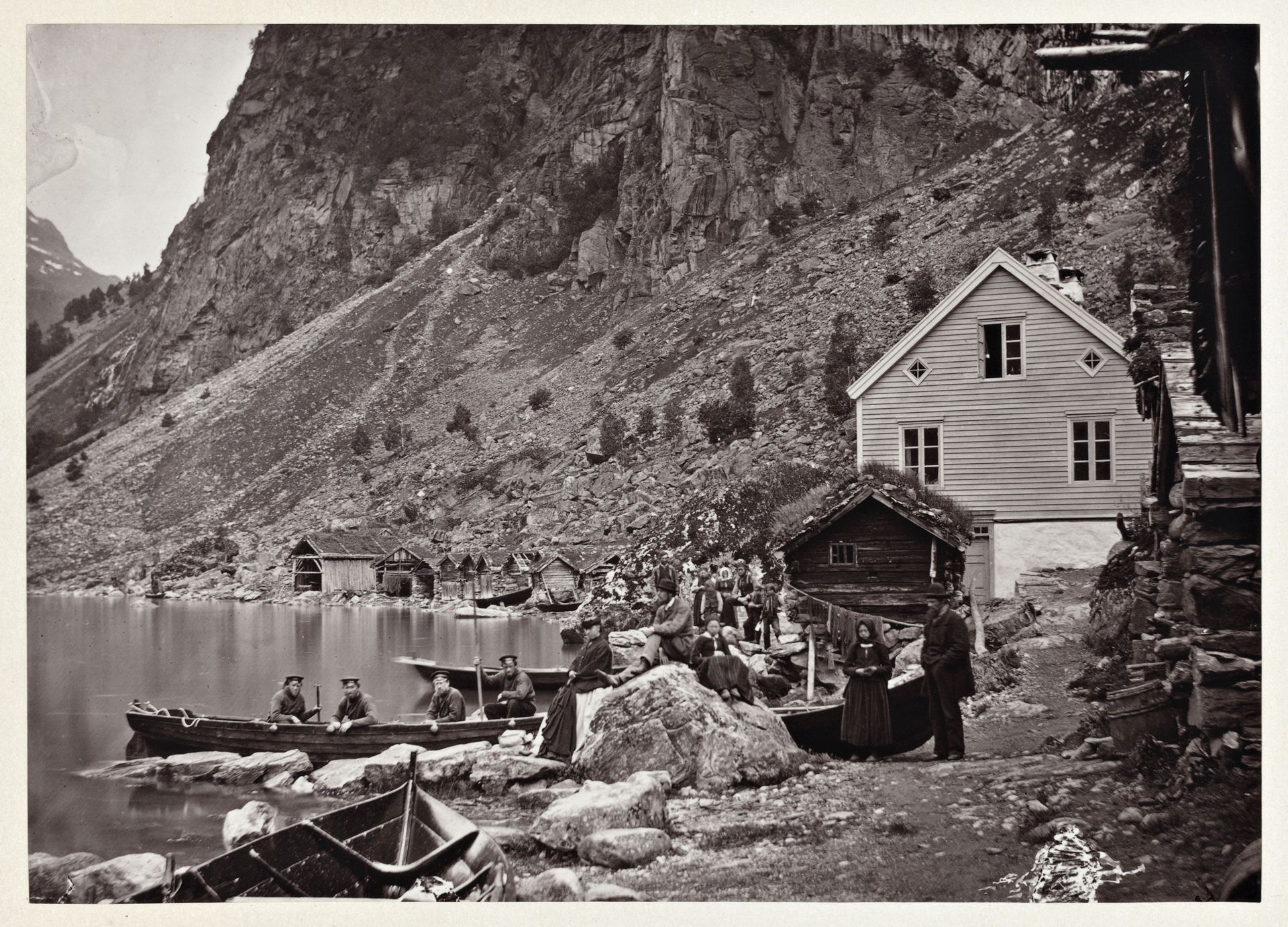 Tittel / Title: s. 46 Geiranger Motiv / Motif: Albuminkopi. Dato / Date: 1869 Fotograf / Photographer: Edward Backhouse Mounsey (1840-1911) Sted / Place: Møre og Romsdal, Stranda, Geiranger Eier / Owner Institution: Nasjonalbiblioteket / National Library of Norway Lenke / Link: Bildesignatur / Image Number: bldsa_Alb_BH048